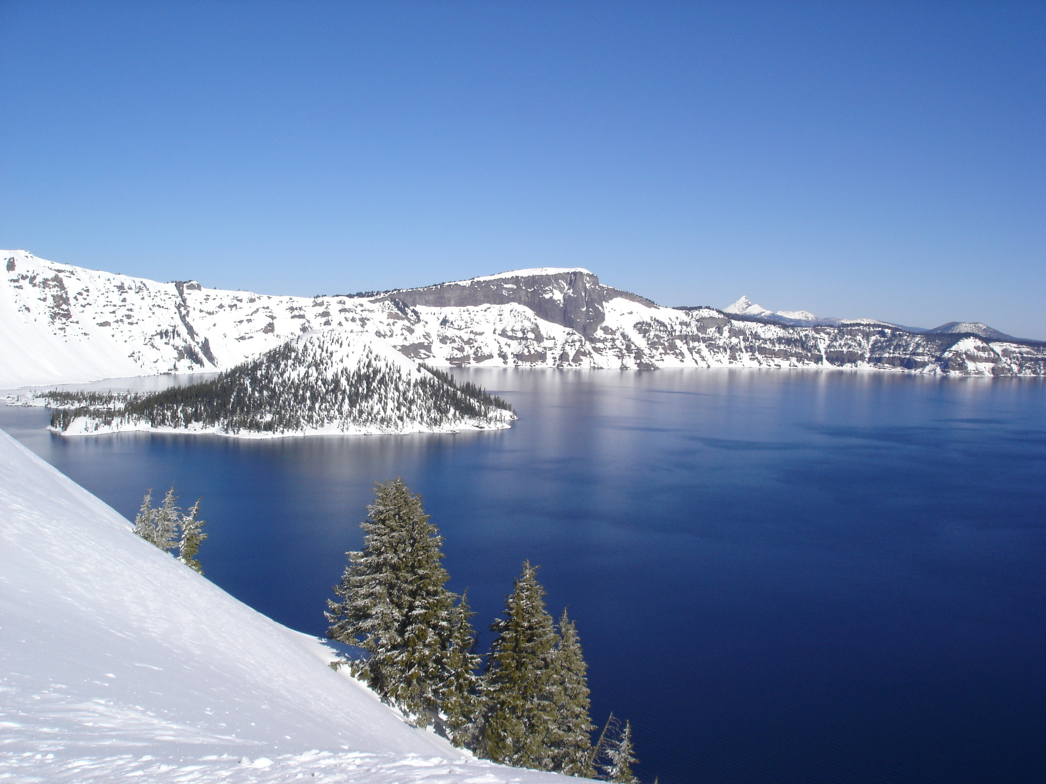 Crater Lake in winter